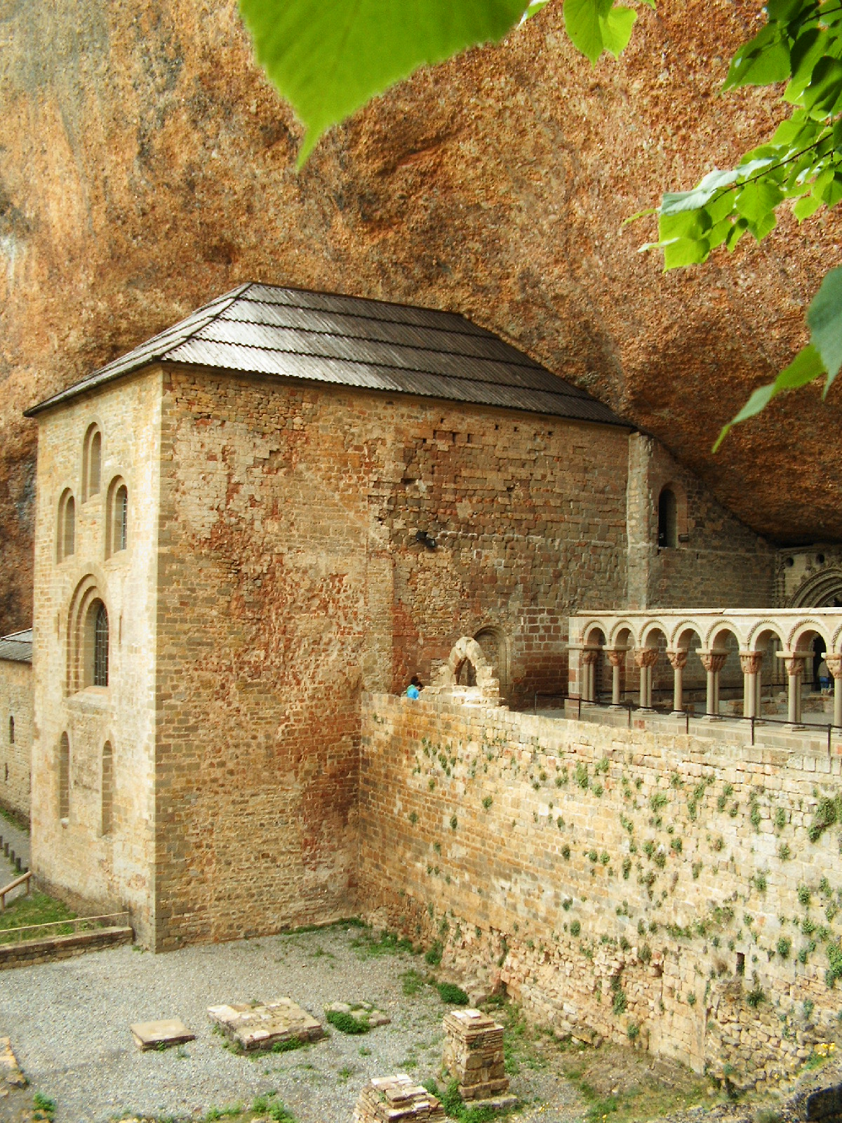 The Way of St. James or St. James' Way, often known by its Spanish name, el Camino de Santiago, is the pilgrimage to the Cathedral of Santiago de Compostela in Galicia in northwestern Spain, where legend has it that the remains of the apostle, Saint James the Great, are buried. The Way of St James has existed for over a thousand years. It was one of the most important Christian pilgrimages during medieval times. It was considered one of three pilgrimages on which a plenary indulgence could be earned;[citation needed] the others are the Via Francigena to Rome and the pilgrimage to Jerusalem.Legend holds that St. James's remains were carried by boat from Jerusalem to northern Spain where they were buried on the site of what is now the city of Santiago de Compostela. There are some, however, who claim that the bodily remains at Santiago belong to Priscillian, the fourth-century Galician leader of an ascetic Christian sect, Priscillianism, who was one of the first Christian heretics to be executed.There is not a single route; the Way can take one of any number of pilgrimage routes to Santiago de Compostela. However a few of the routes are considered main ones. Santiago is such an important pilgrimage destination because it is considered the burial site of the apostle, James the Great. During the Middle Ages, the route was highly travelled. However, the Black Plague, the Protestant Reformation and political unrest in 16th- century Europe resulted in its decline. By the 1980s, only a few pilgrims arrived in Santiago annually. However, since then, the route has attracted a growing number of modern-day pilgrims from around the globe. The route was declared the first European Cultural Route by the Council of Europe in October 1987; it was also named one of UNESCO's World Heritage Sites in 1993.